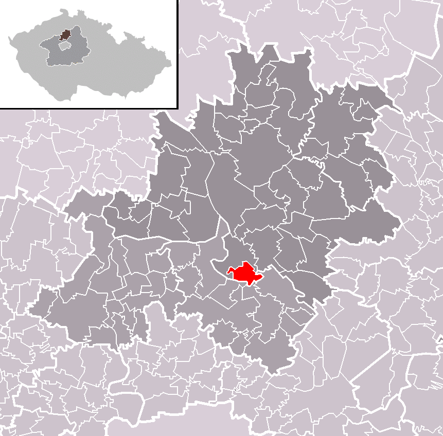 Location of Tuhaň municipality within Mělník District and administrative area of Mělník as a Municipality with Extended Competence.